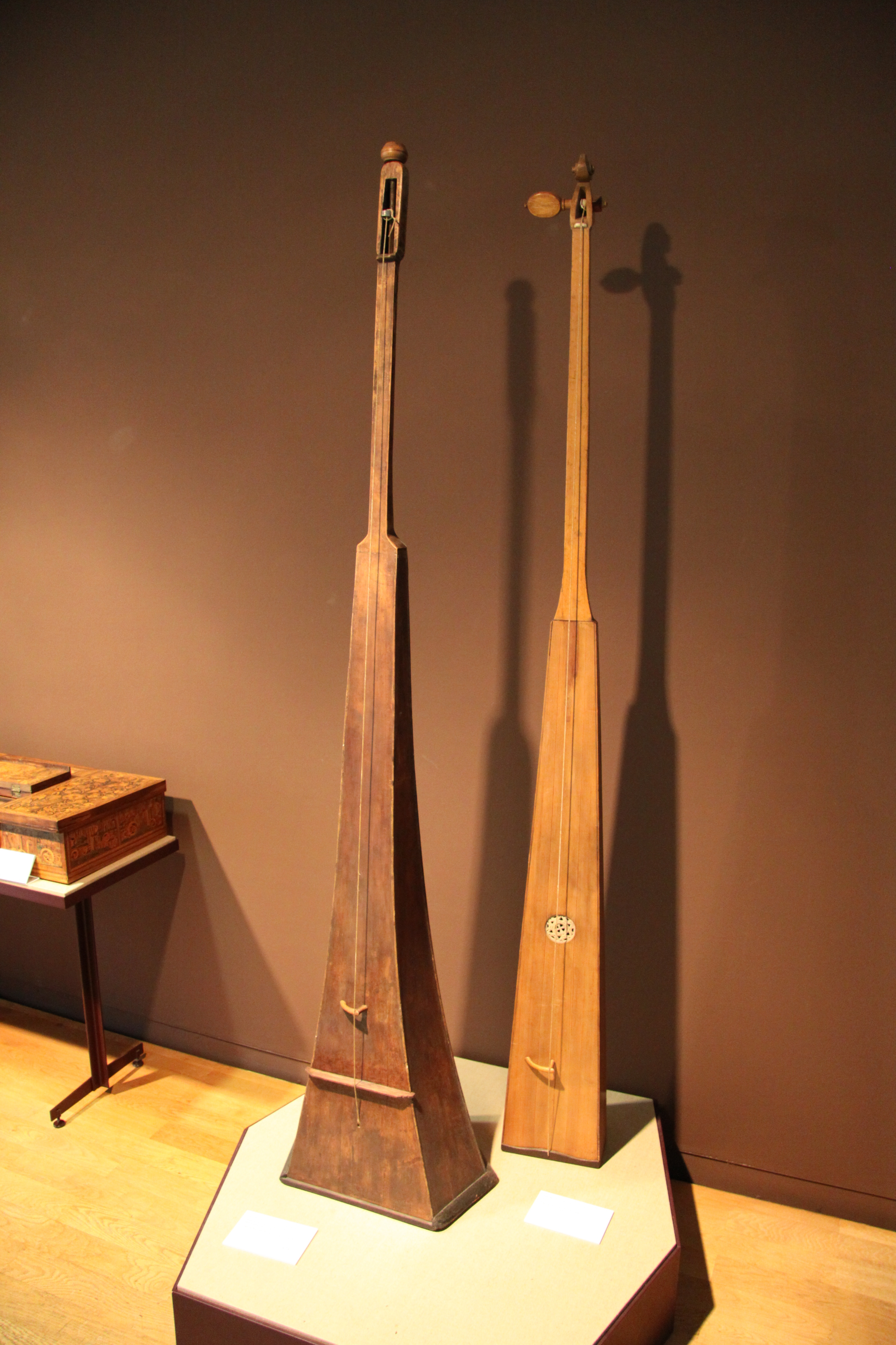 String instruments at the Musical Instrument Museum, Berlin.